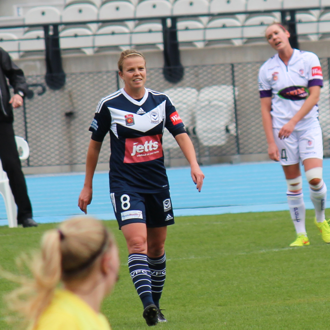 amy jackson at victory vs glory match